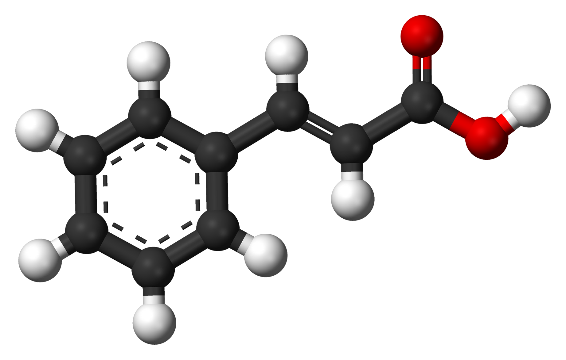 Ball-and-stick model of the cinnamic acid molecule, a carboxylic acid found in cinnamon, used in various flavors and perfumes.